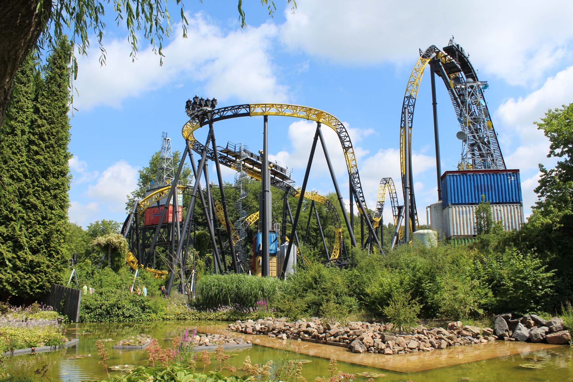 The Mack Rides Big Dipper coaster Lost Gravity at Walibi Holland.